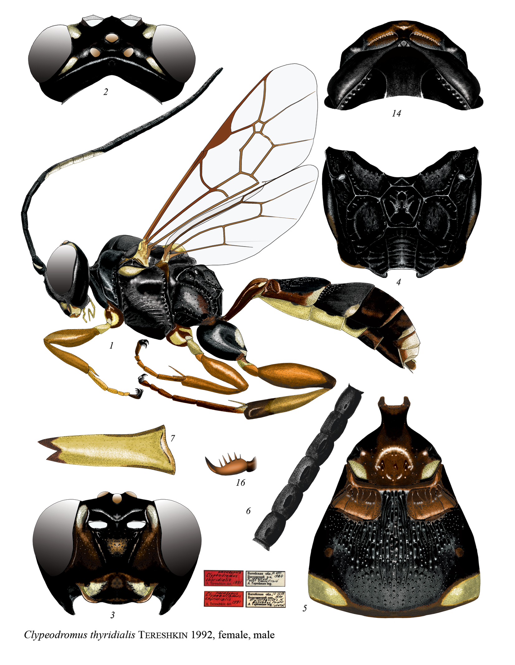 Clypeodromus thyridialis